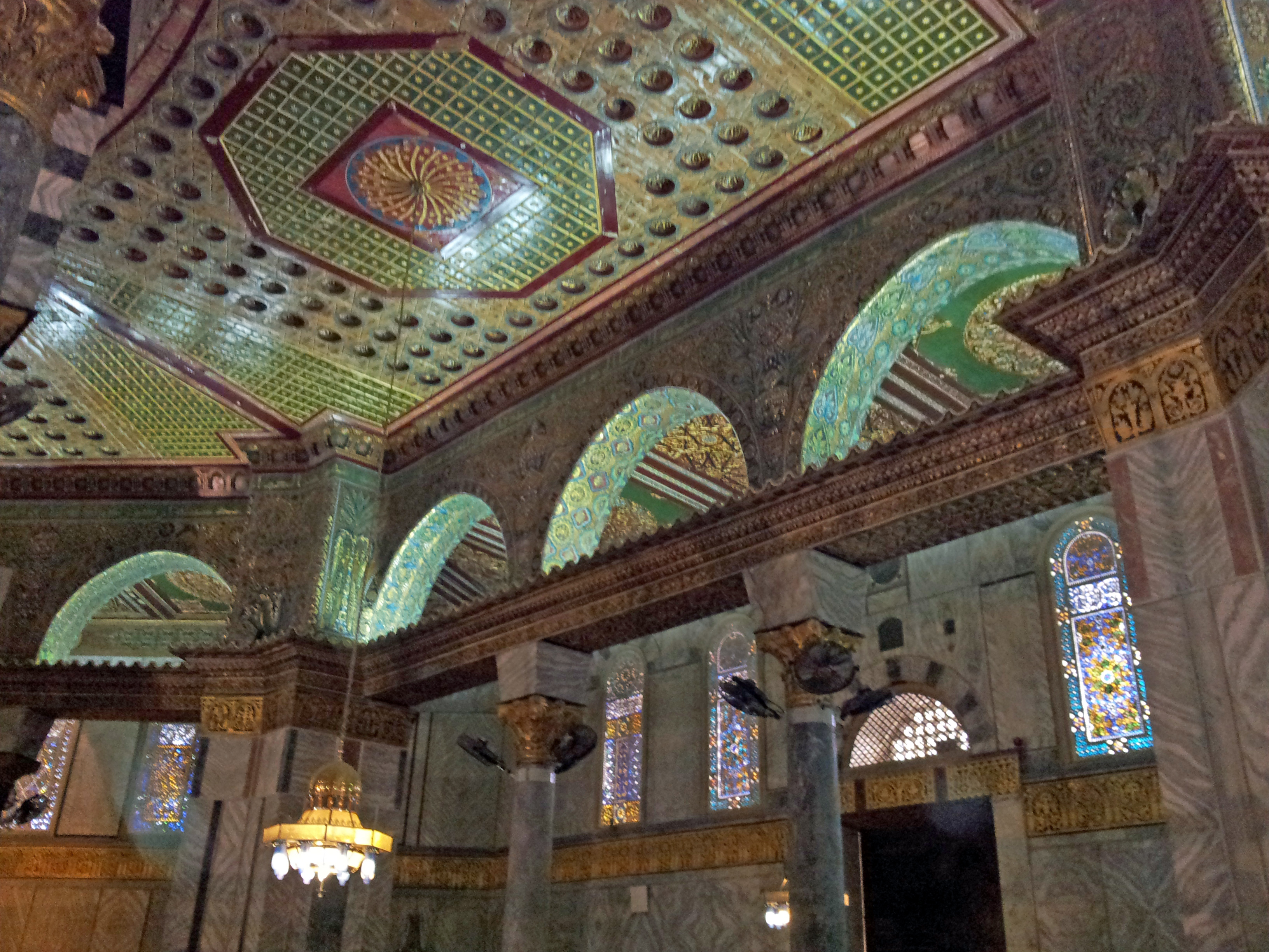 Jérusalem - Dome of the Rock - interior : mosaïc